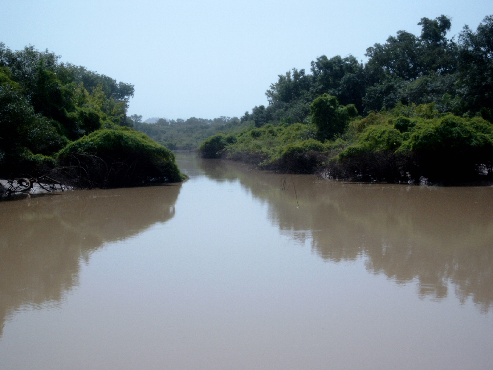 View of the Arli river in the Arli National Park (Burkina Faso) near the rangers' station.